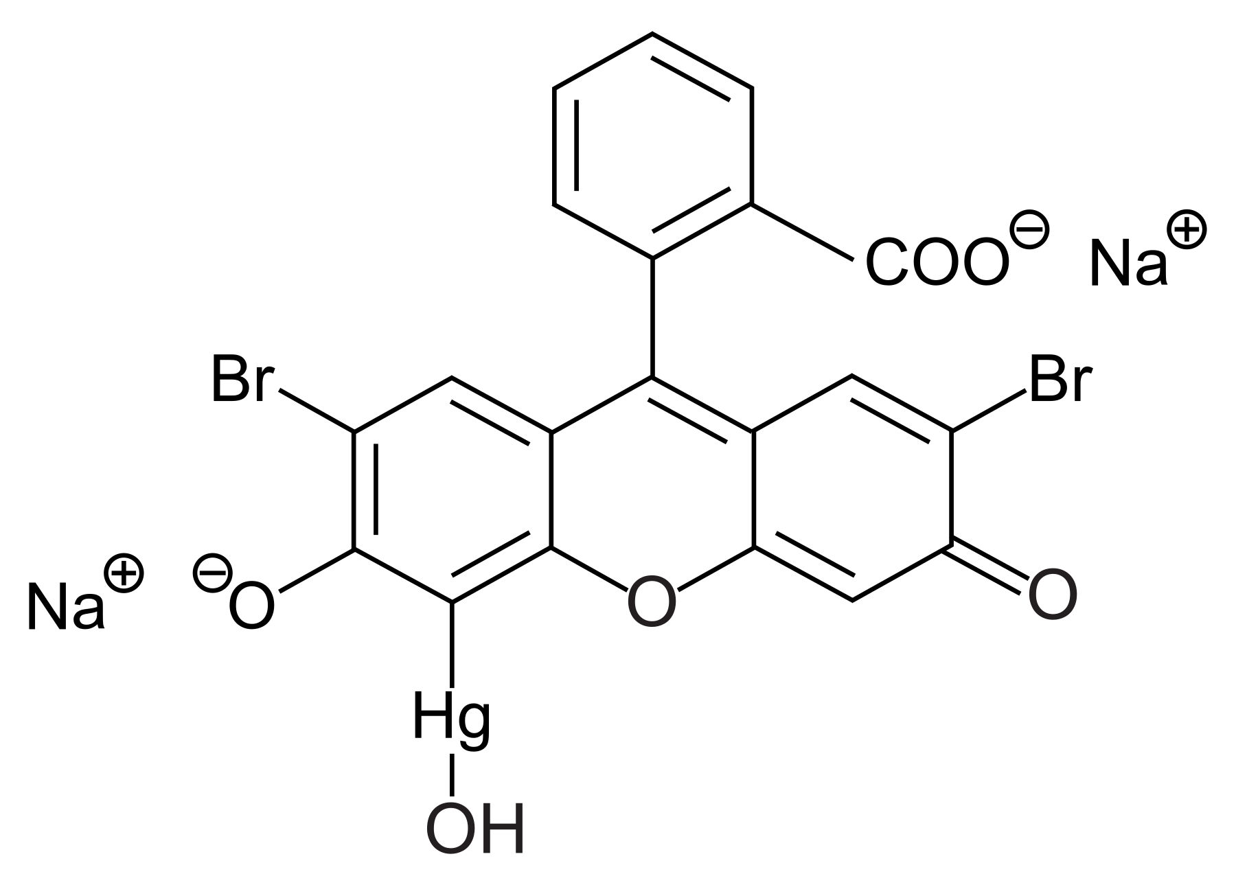 Description: Chemical structure of mercurochrome Author, date of creation: selfmade by Shaddack, 21 October 2005 Source: self-made Copyright: Public Domain (PD) Comments: b/w PNG; ChemWindow